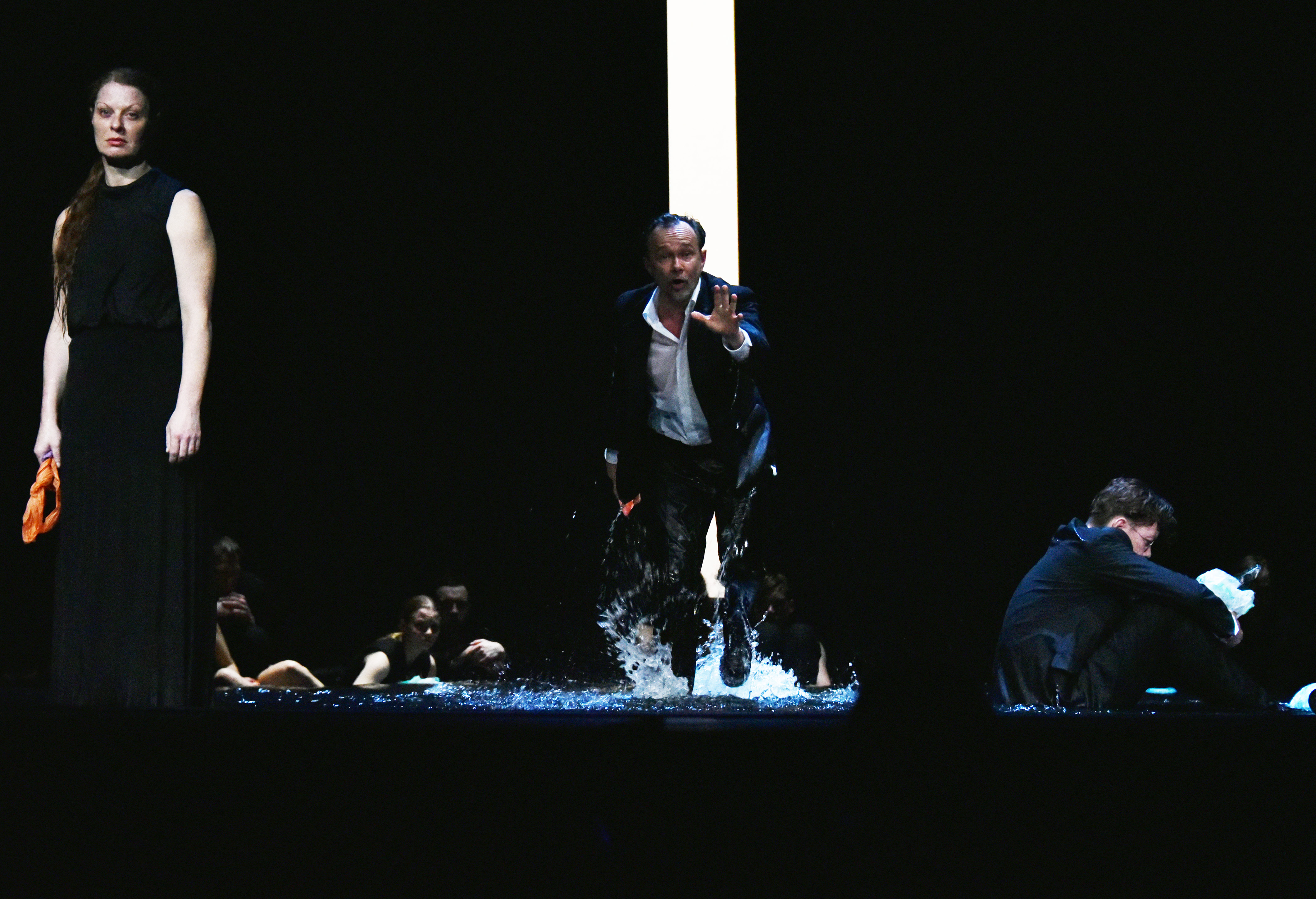 Die Schutzbefohlenen (von Elfriede Jelinek), Burgtheater Wien 2015